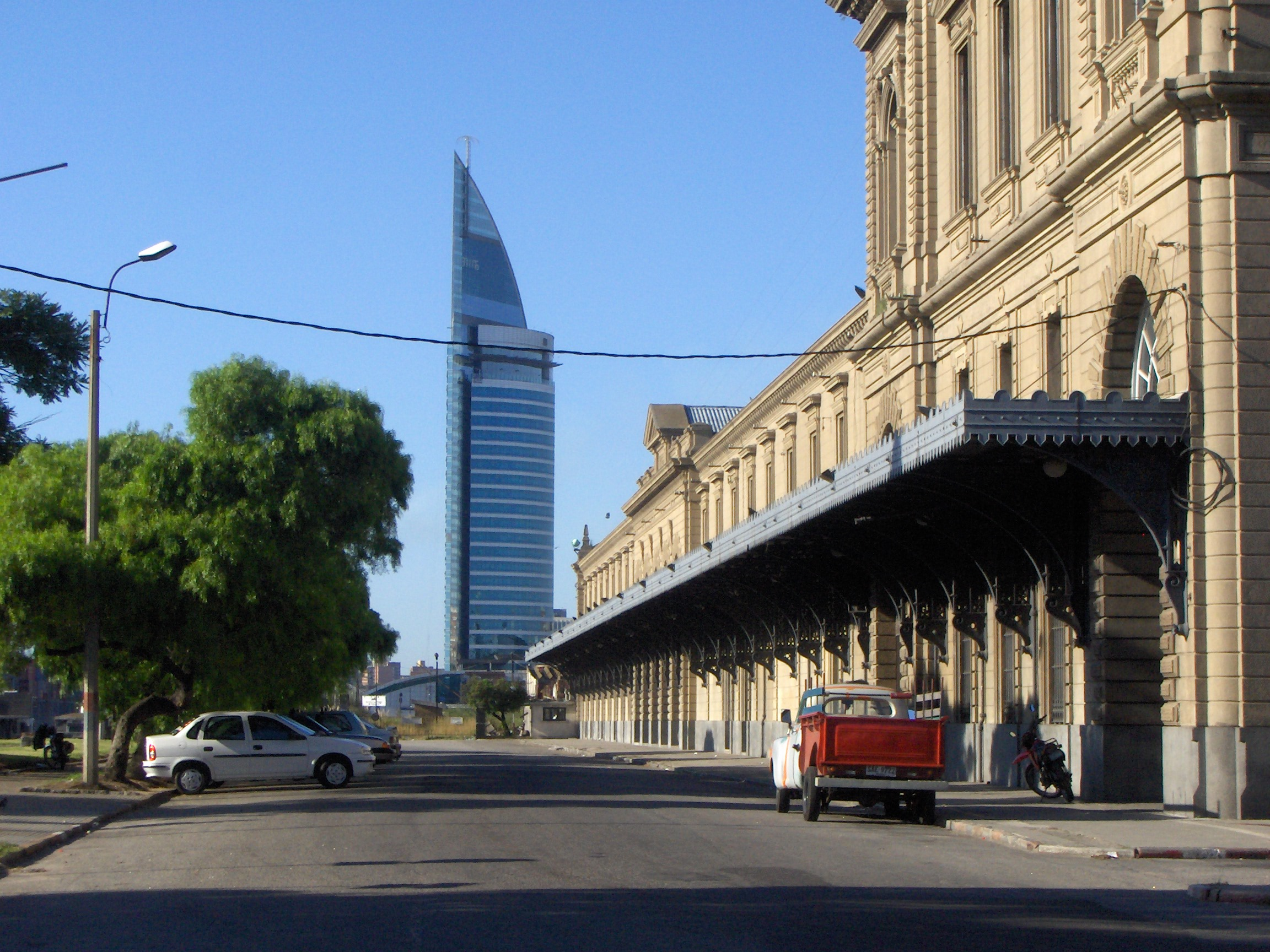 Situated in Montevideo, Uruguay, this street is named Río Negro street. One can note on the right hand side the side face of the old railway station General Artigas. In the street prolongation, at about six hundred meters far, is the telecommunication tower ANTEL.